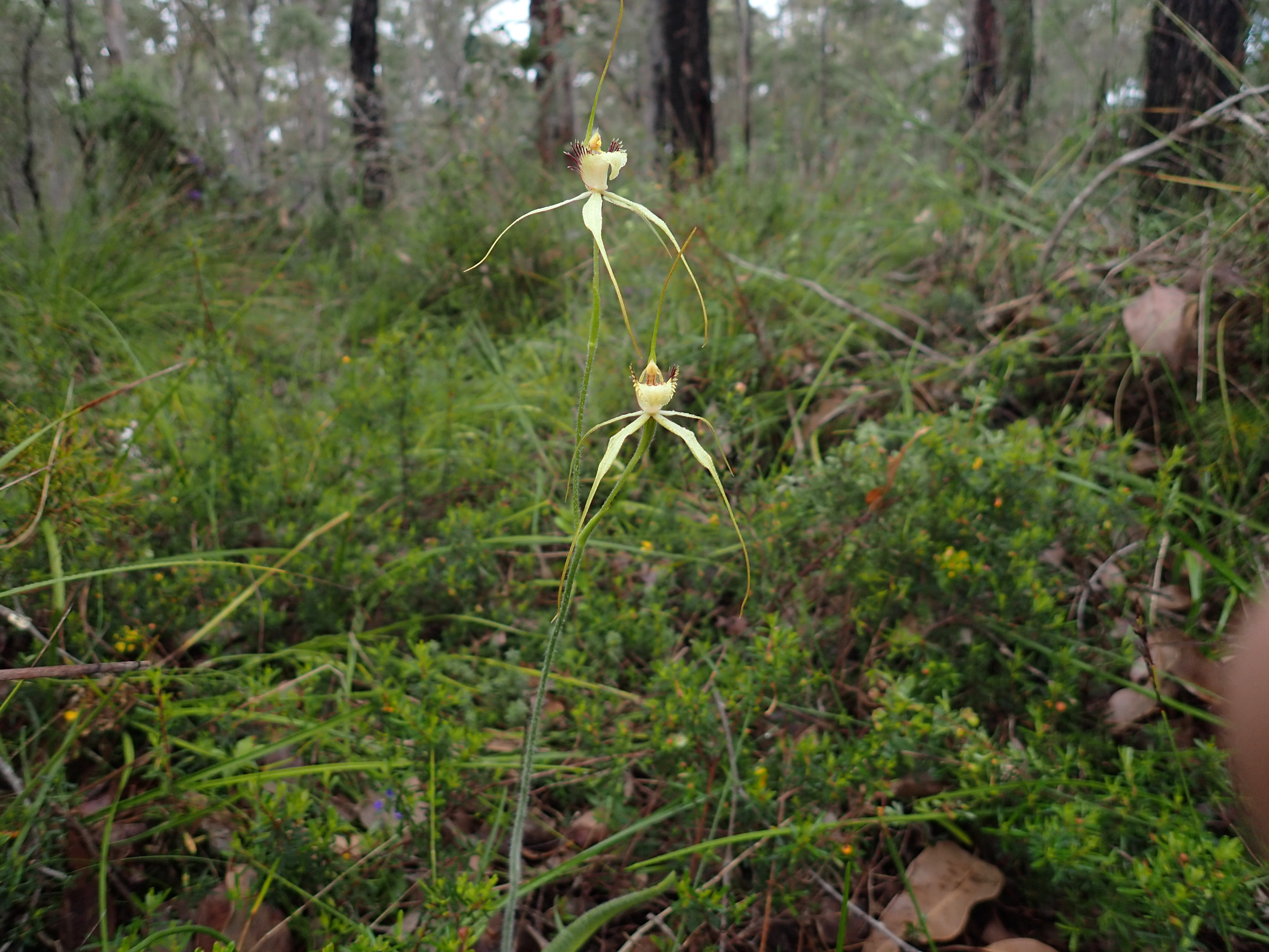 Caladenia busselliana growing near Dunsborough, Western Australia